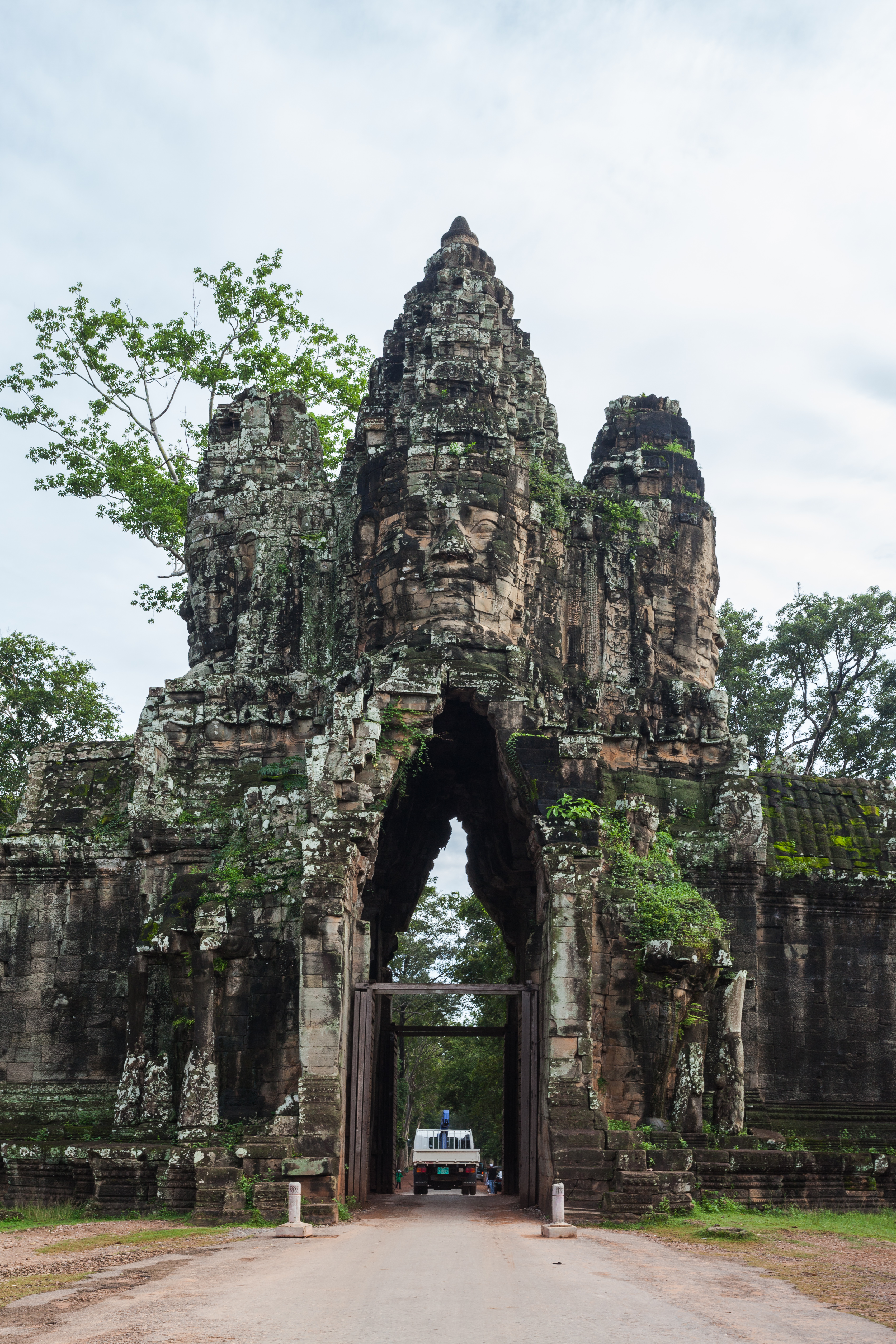 South Gate, Angkor Thom, Cambodia